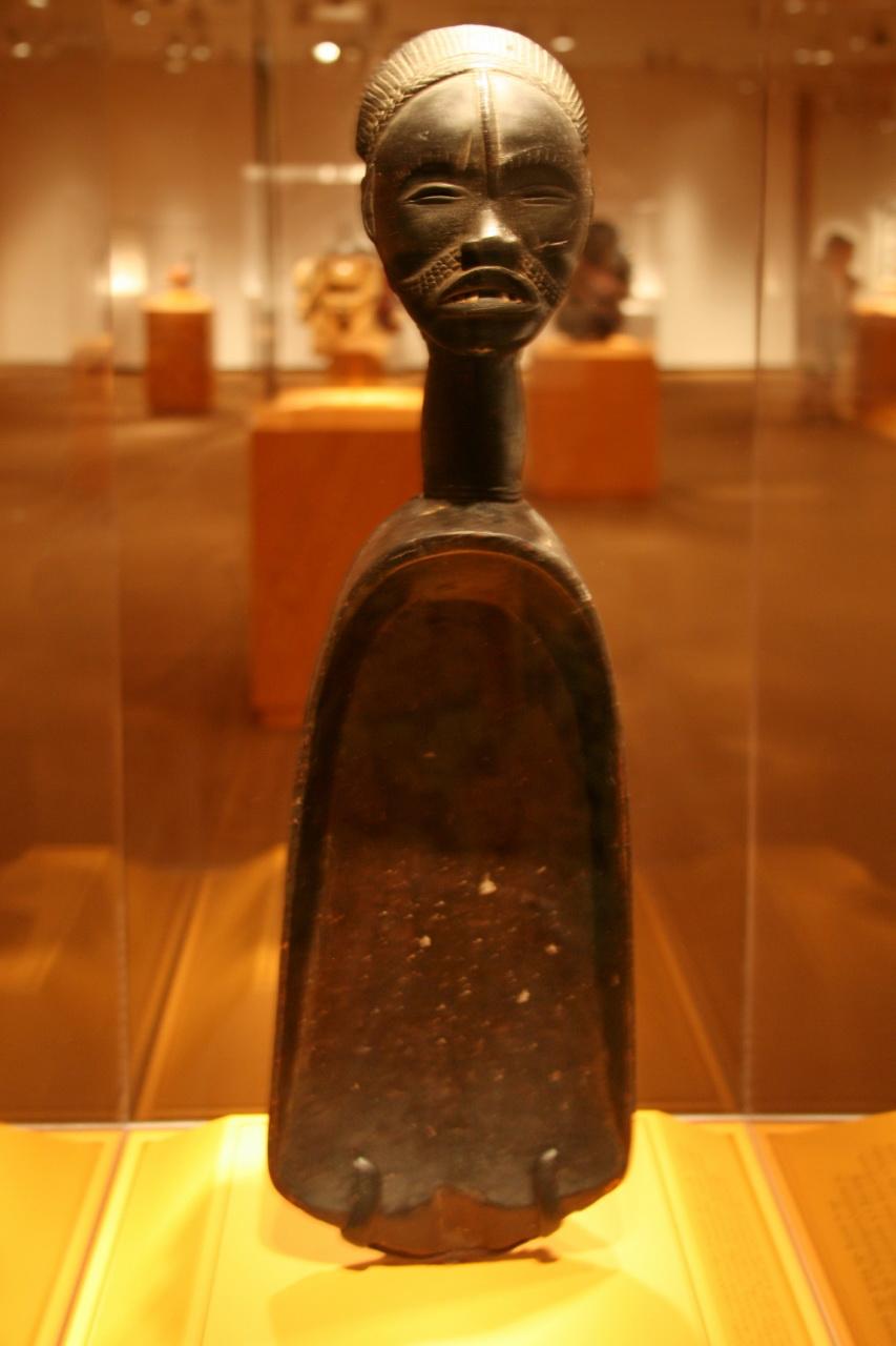 Ceremonial spoon, Wee peoples, Liberia and Côte d'Ivoire, Late 19th to mid-20th century, Wood, metal, oil patina The Wee and other neighboring peoples honor the woman who can feed her household and accommodate, with a generous hand, unexpected visitors, traveling musicians and seasonal farm workers. The emblem of her achievement is a specially carved ceremonial spoon that may be a generalized portrait of the owner. On special occasions she holds the spoon as she dances with attendants. As in many African cultures, beauty is linked with moral values-in this case, hard work. The success of the woman also reflects the hard work and achievement of her husband, who supports her generosity. (National Museum of African Art)